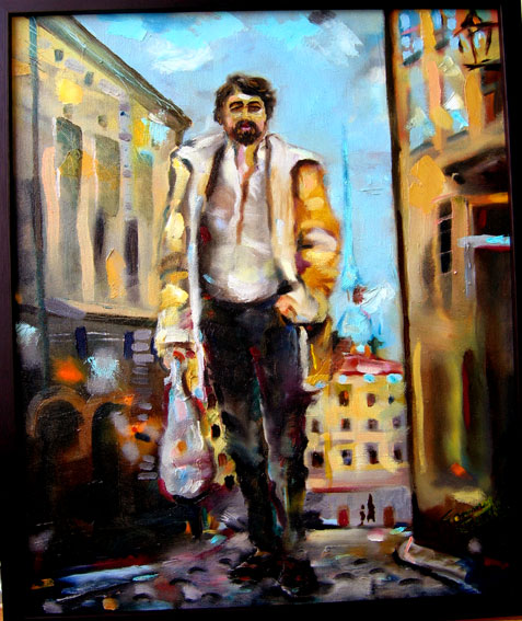 The Swedish artist Cornelis Vreeswijk walking in Gamla Stan in Stockholm painted by Tommy Tallstig